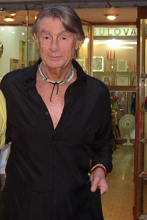 Director Joel Schumacher at Taormina Film Fest 2003